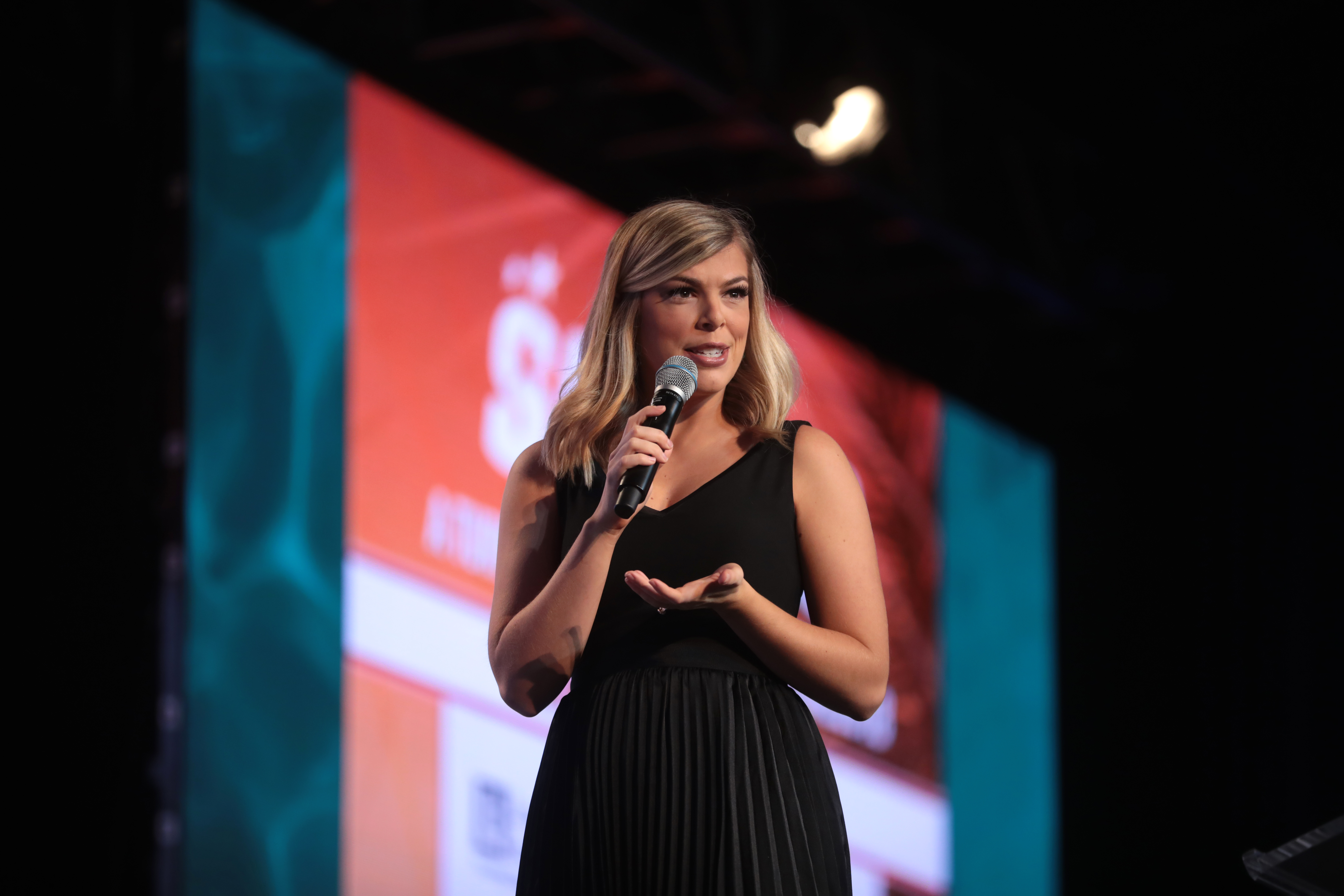 Allie Stuckey speaking with attendees at the 2018 Student Action Summit hosted by Turning Point USA at the Palm Beach County Convention Center in West Palm Beach, Florida.